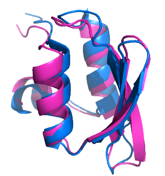 Superposition of 1.6 Å RMSD Rosetta@home model for CASP6 target T0281 (magenta; PDB code: 1whz) with its crystal structure (blue).